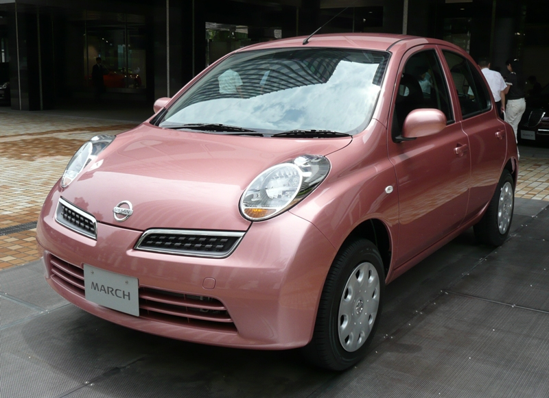 NIssan March.